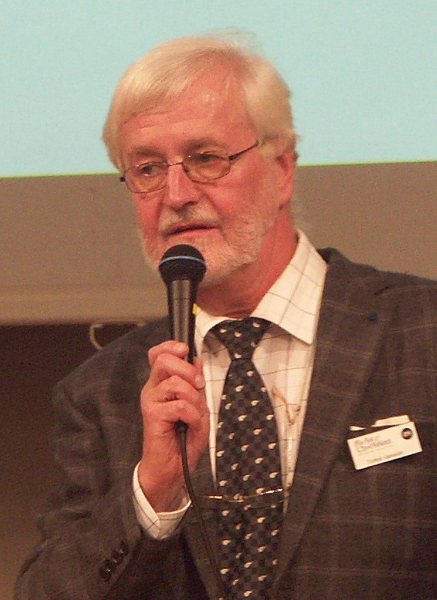 Swedish senior history professor Torkel Jansson.